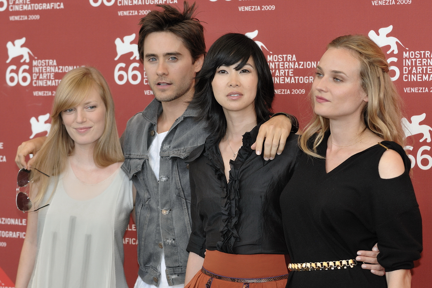 The 66th Venice International Film Festival. Sarah Polley, Jared Leto, Linh Dan Pham and Diane Kruger of the film Mr. Nobody.